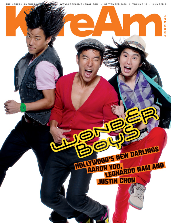 Magazine cover of KoreAm from September 2008 featuring Actors Aaron Yoo, Leonardo Nam, and Justin Chon